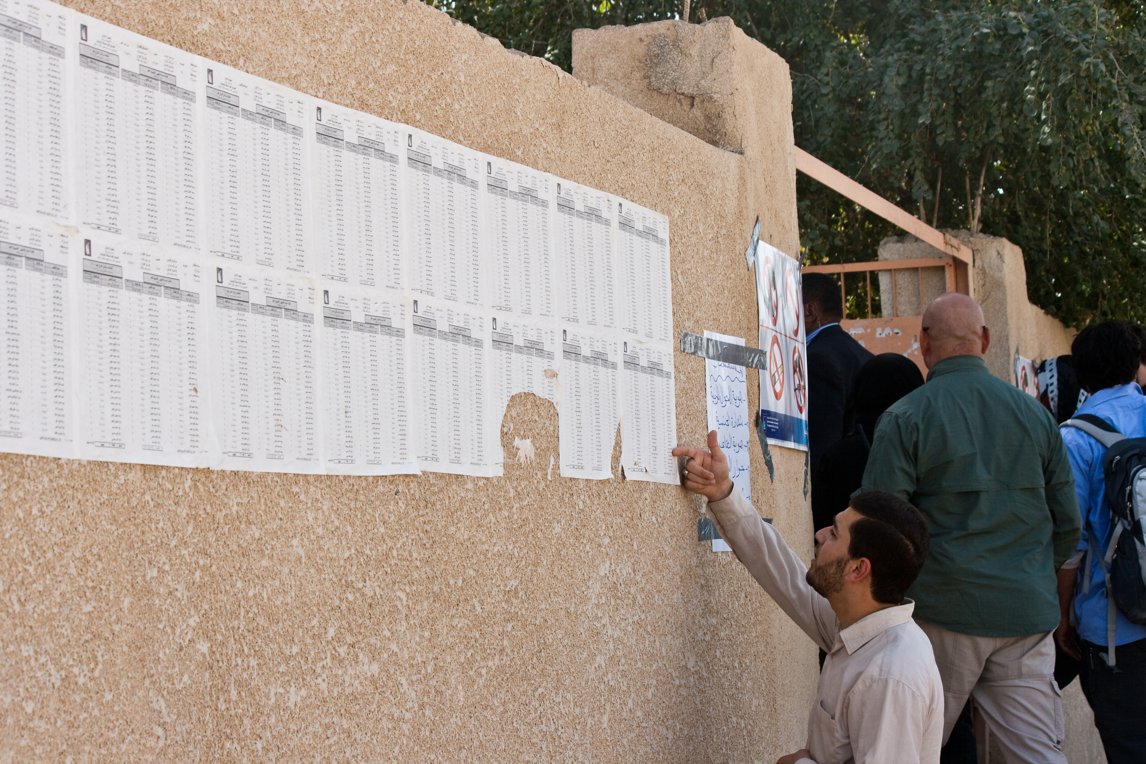 A man looks at names listed outside a voting centre in Najaf.